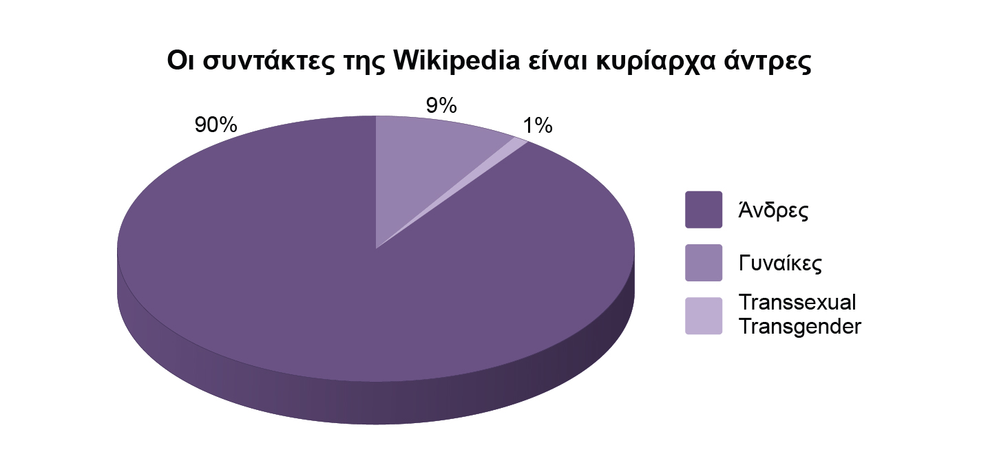 Greek translation of